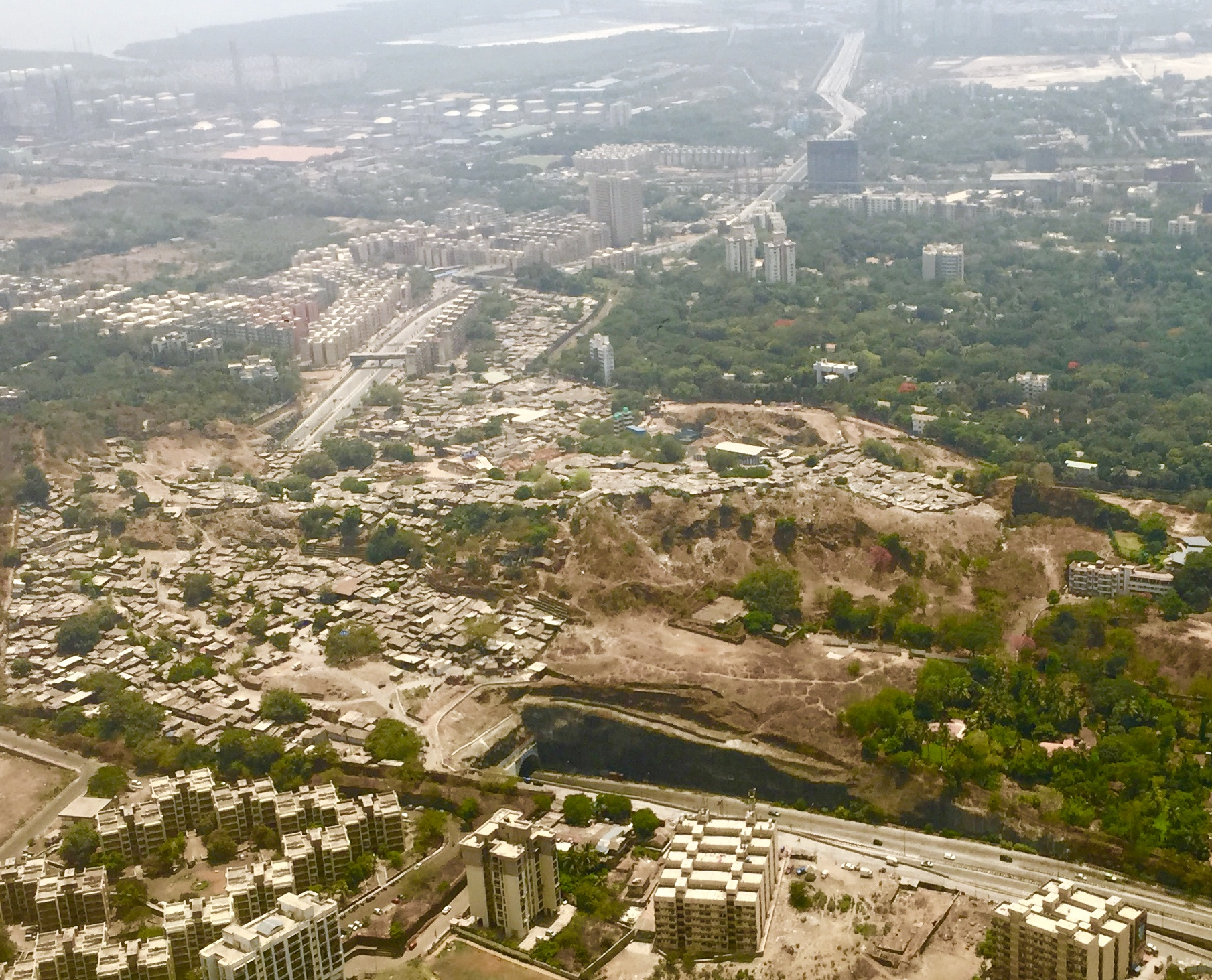 Aerial view of the Anik Panjarpol road, part of the Eastern Freeway in Mumbai, India.